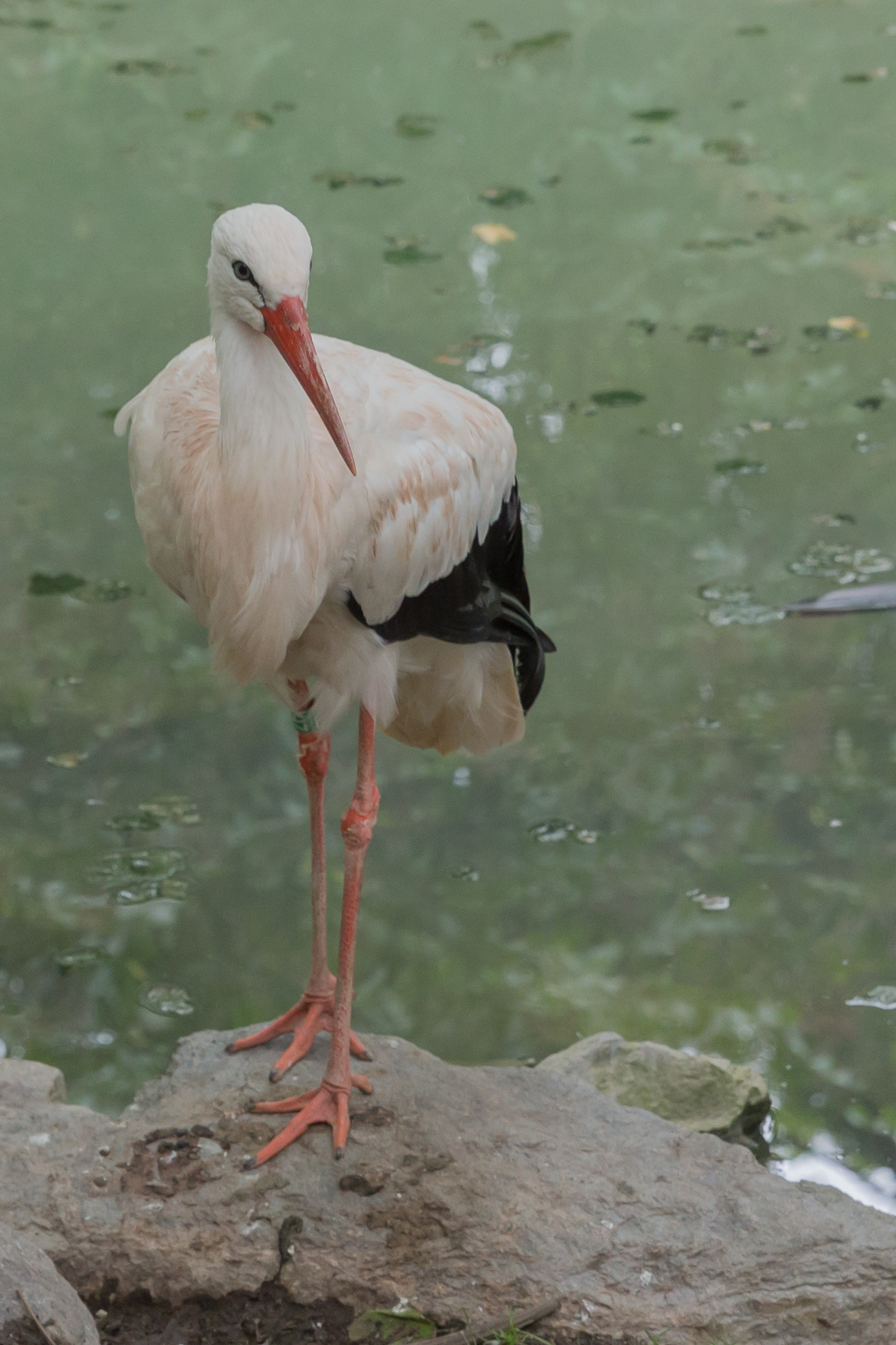 Ciconia ciconia (white stork) in the spectacle of birds in the ZooParc de Beauval in Saint-Aignan-sur-Cher, France.